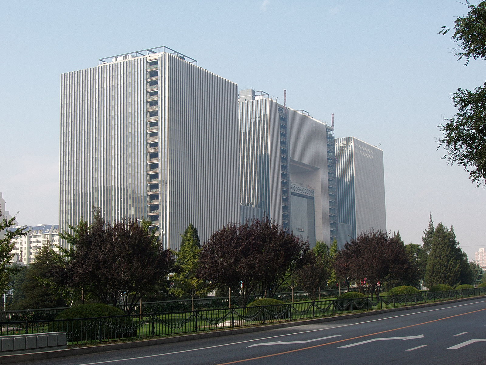 CNPC Headquarters Building, headquarters of China National Petroleum Corporation (CNPC) and PetroChina Company, in Dongcheng District, Beijing. 中文（中国大陆）: 中国石油总部大楼